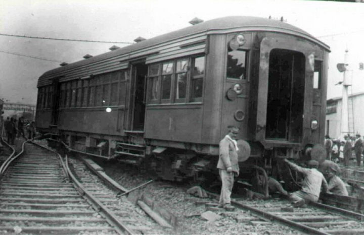 Metropolitan Cammell wagon of the Buenos Aires Western Railway derailed in Liniers.